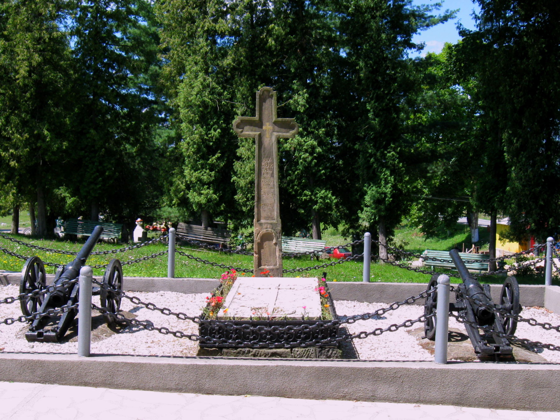 Tomb of Avram Iancu in Țebea, Hunedoara, 2009